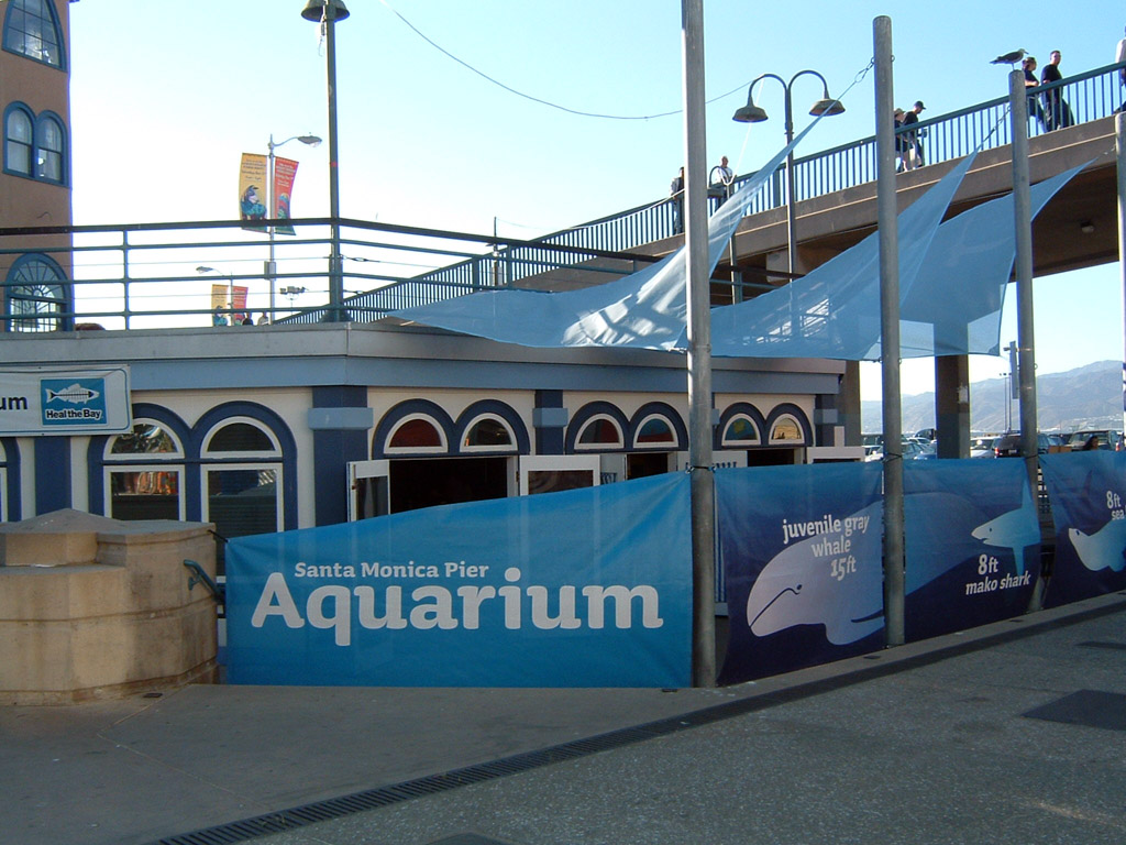 Jeremy Selan Santa Monica Pier Aquarium Santa Monica, CA 12/3/06